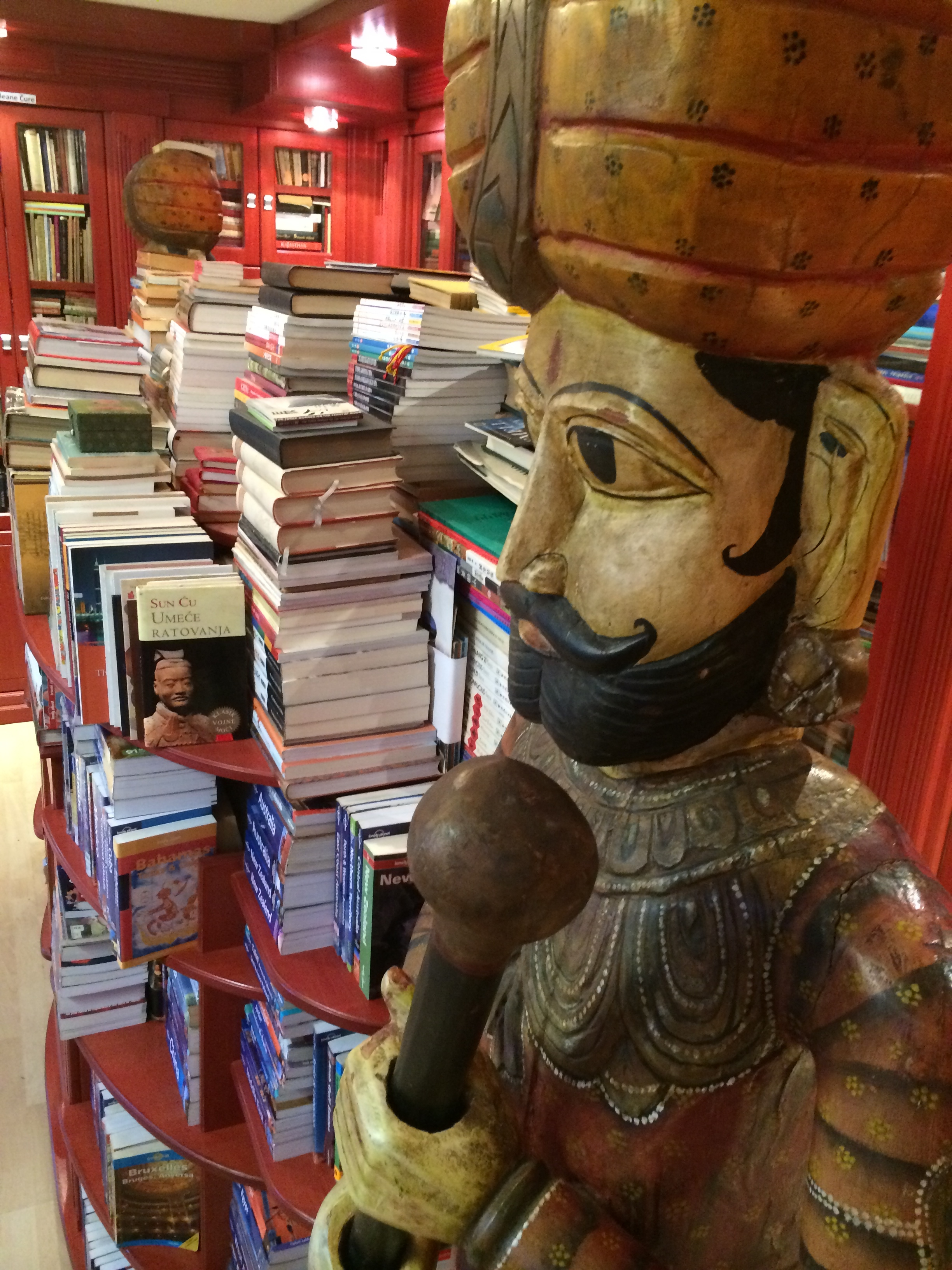 Statue of Indian temple keeper in Museum of Book and Travel (Society for Culture, Art and International Cooperation Adligat) in Belgrade, Serbia. Српски (ћирилица): Статуа чувара храма из Панџаба (Индија) у Музеју књиге и путовања (Удружењу за културу, уметност и међународну сарадњу Адлигат) у Београду.